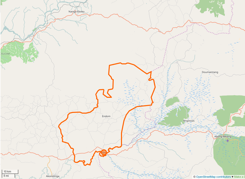 Ayos in Cameroon ː city boundaries with OSM. This map may be incomplete, and may contain errors. Don't rely solely on it for navigation.